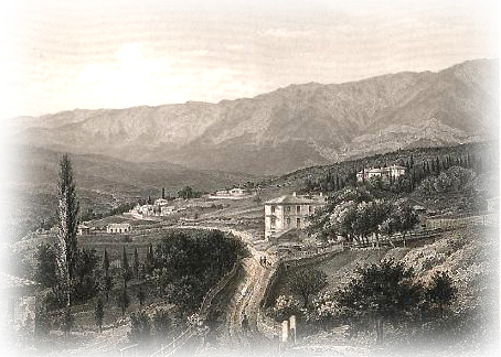 Autka, Yalta uyezd, Crimea, 1900.